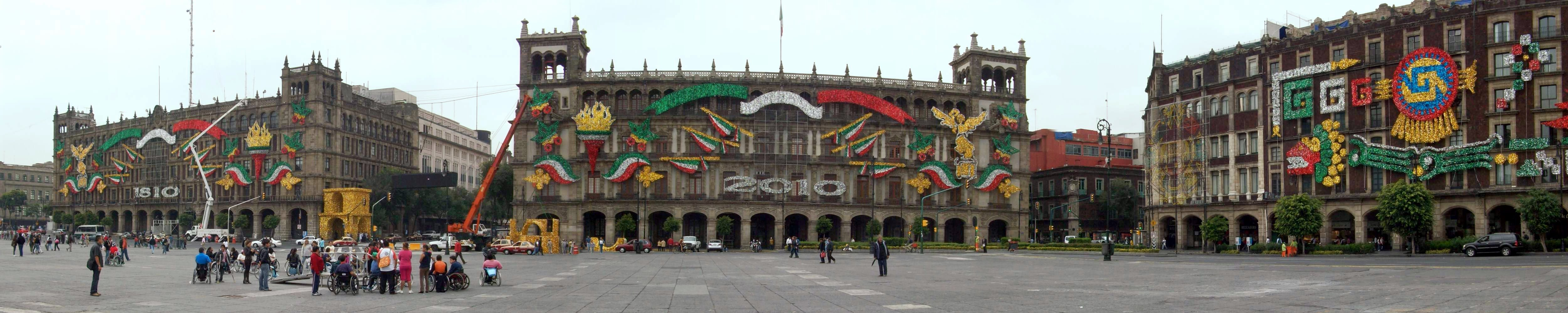 Zócalo, Mexico City. Looking south to both of the Federal District buildings. Far right is the former Portal de Mercaderes. All buildings will be decorated especially for the soon coming Bicentenario celebrations